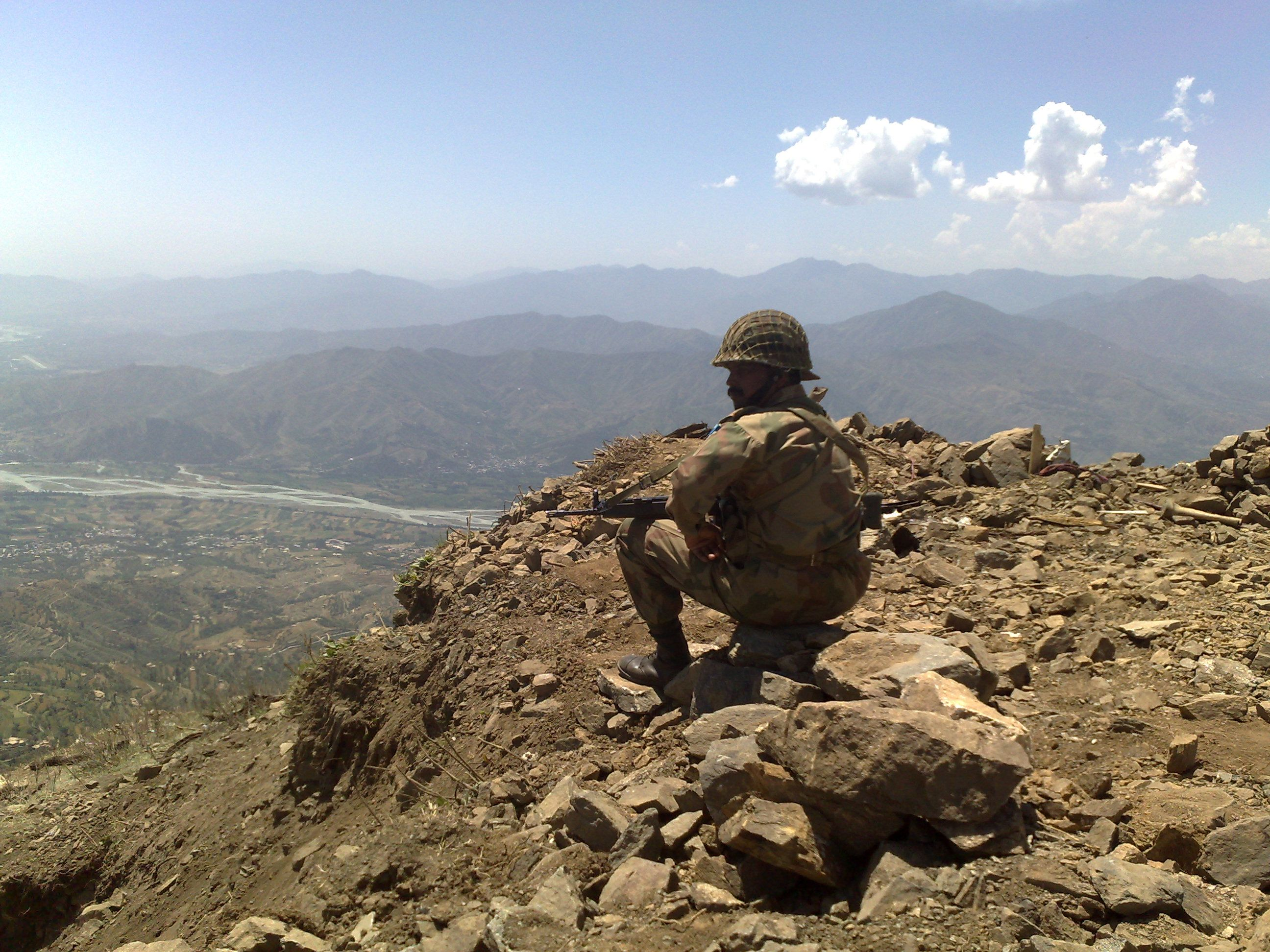 Pakistani forces captured Baine Baba Ziarat, the highest point in Swat valley, 10 days ago.